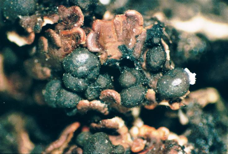 Psora globifera (Ach.) A. Massal., 1852 (photograph of a herbarium specimen) Growing on open basalt along the shore of Lake Superior, W side of Highway 17, 12.5 miles N of Pancake Bay Provincial Park entrance; collected and identified by Richard E. Riefner (No. 81-521, 23 Jul 1981); specimen is now in the Lichen Herbarium of the New York Botanical Garden.